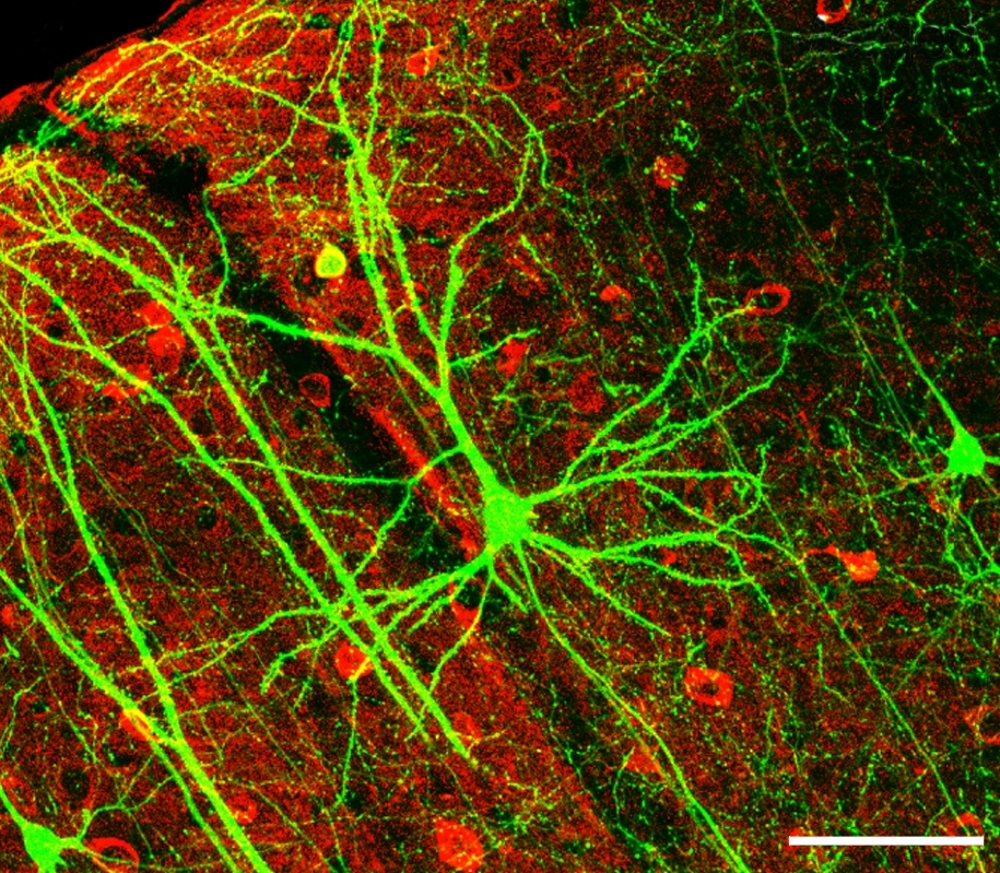 After the original figure legend: Coronal section containing the chronically imaged pyramidal neuron “dow” (visualized by green GFP) does not stain for GABA (visualized by antibody staining in red). Confocal image stack, overlay of GFP and GABA channels. Scale bar: 100 μm